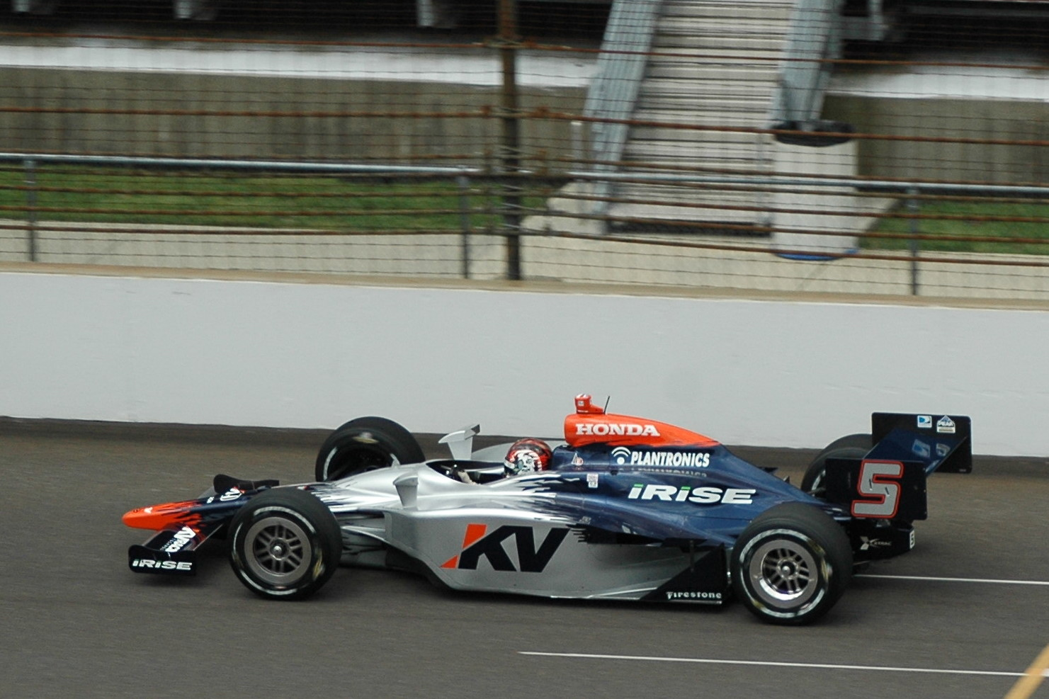 Oriol Servia at Indianapolis 500 practice.